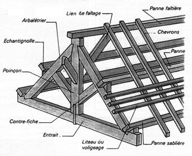 Carpentry